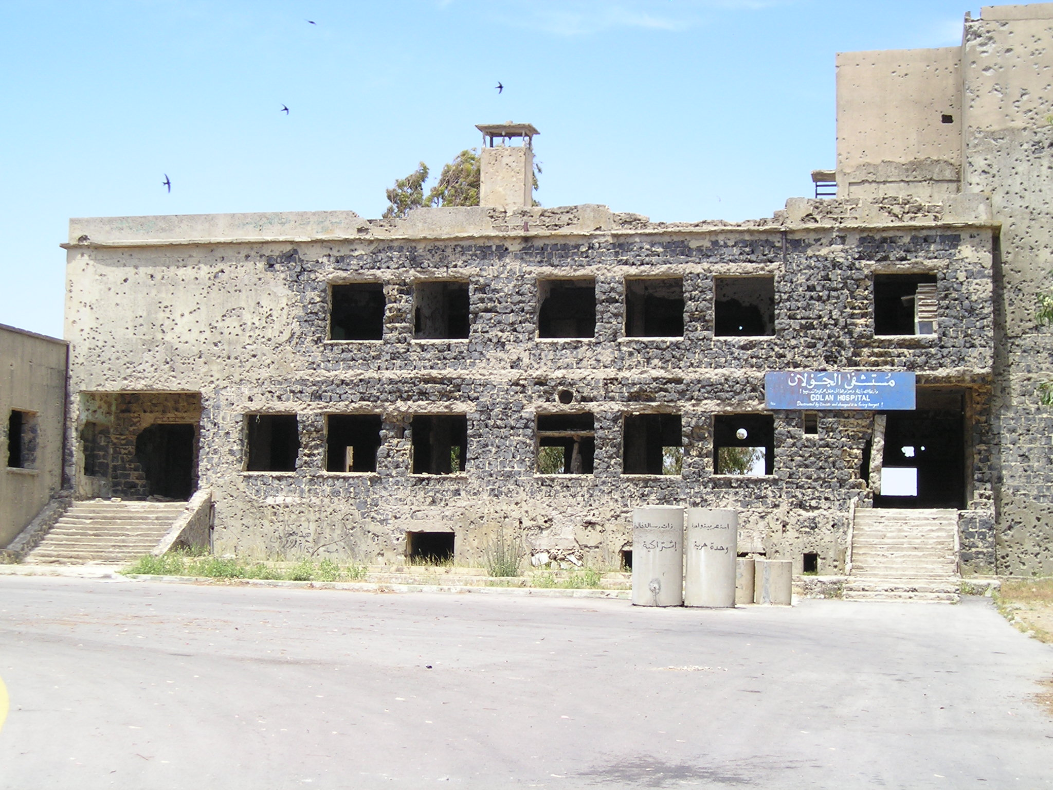 The Golan Hospital in Al-Qunaytirah, UN buffer zone, Syria, as it appears today. Photo by User:bertilvidet